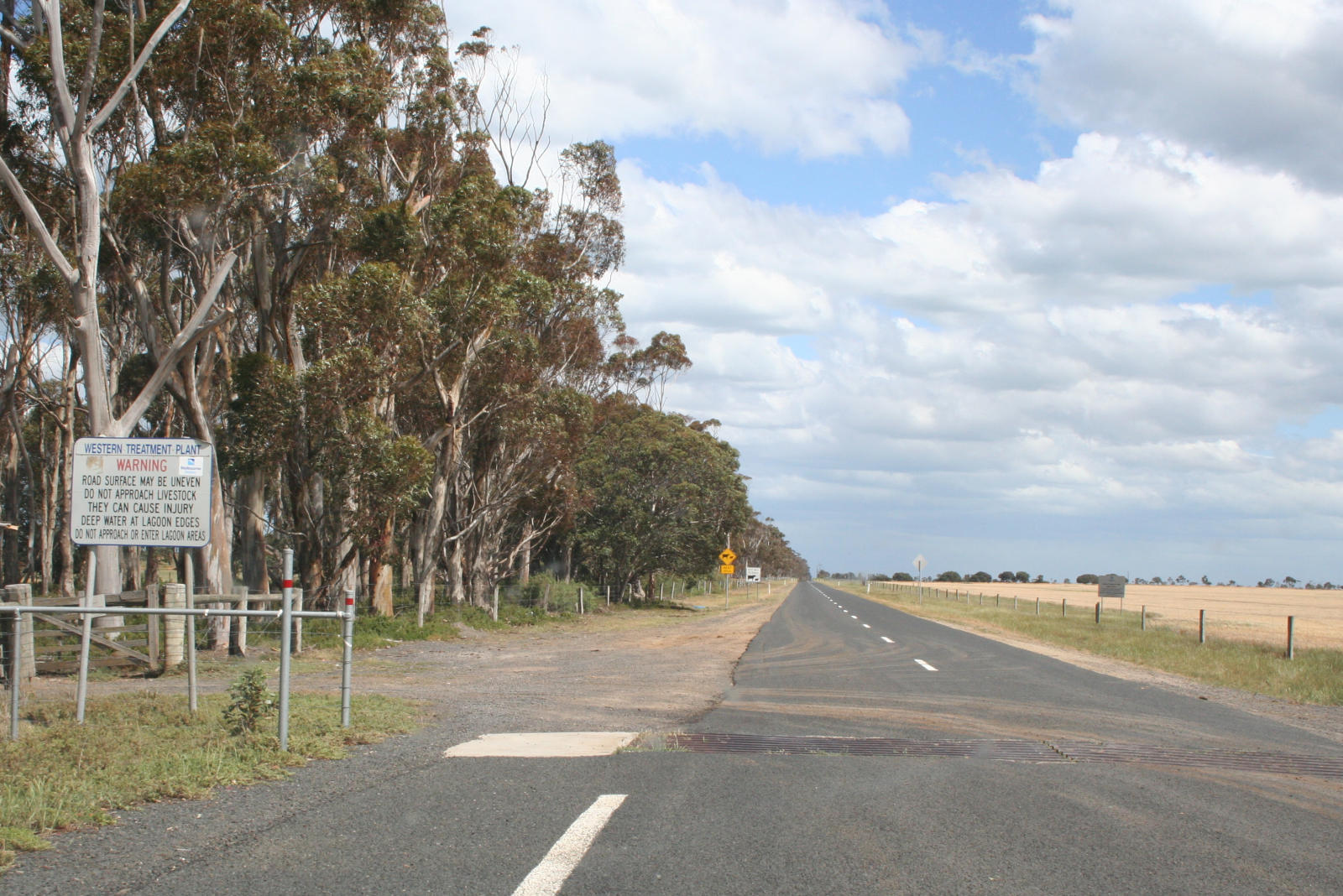 Road towards Point Wilson - Victoria, Australia